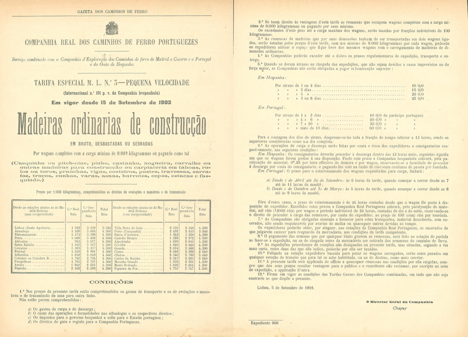 Advertisement of the Companhia Real dos Caminhos de Ferro Portugueses (Royal Company of the Portuguese Railways), showing the special tariff n.º 3, for the transport of timber between Madrid - Delícias Station, in Spain, and several stations in Portugal. This image was published on the Gazeta dos Caminhos de Ferro magazine No. 354, of 16th September 1902, and scanned by the Hemeroteca Municipal de Lisboa.